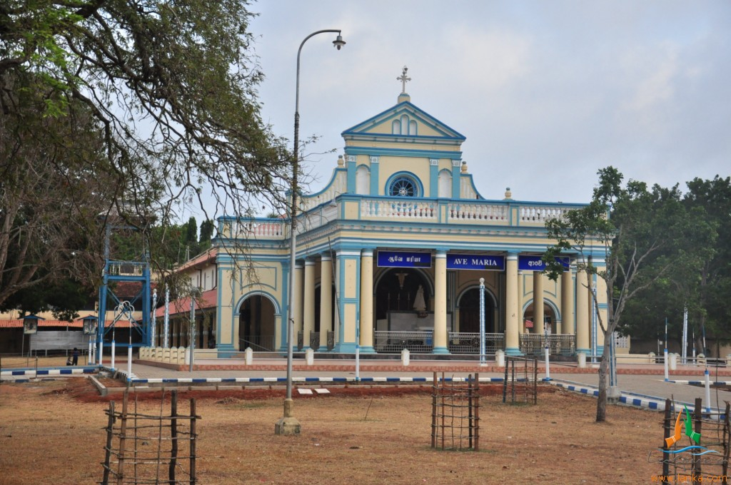 Madhu Church is located in the north-western Mannar District, about 300 km from the capital